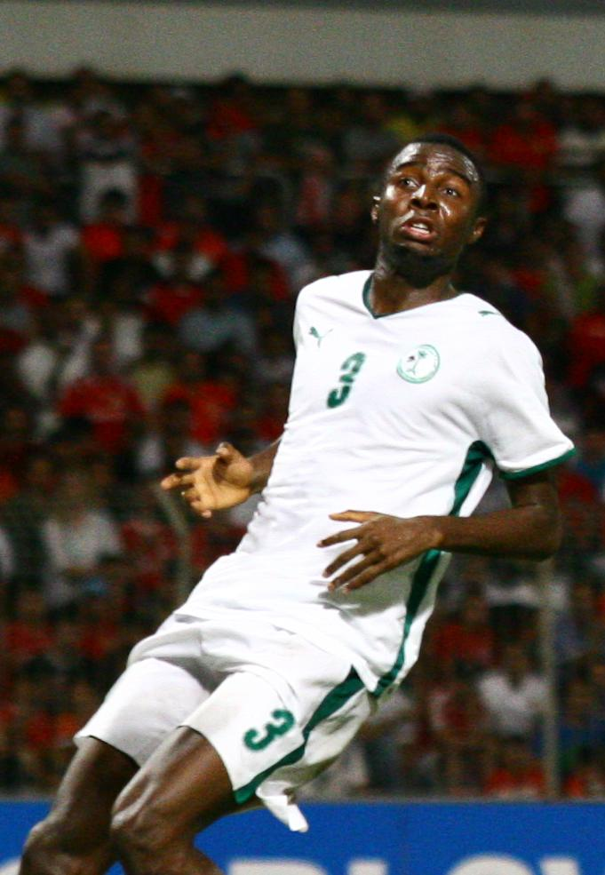 Osama Hawsawi is a Saudi Arabian football (soccer) player who currently plays as a defender for Al-Hilal.